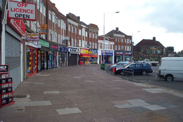 Harrow: Belmont Circle, Belmont. A fine parade of 1930s shops along the north side of the Circle, which is the focal point of the grid square. The OS 1940s map shows Belmont Station on the long since dismantled railway line to Stanmore immediately behind these shops.